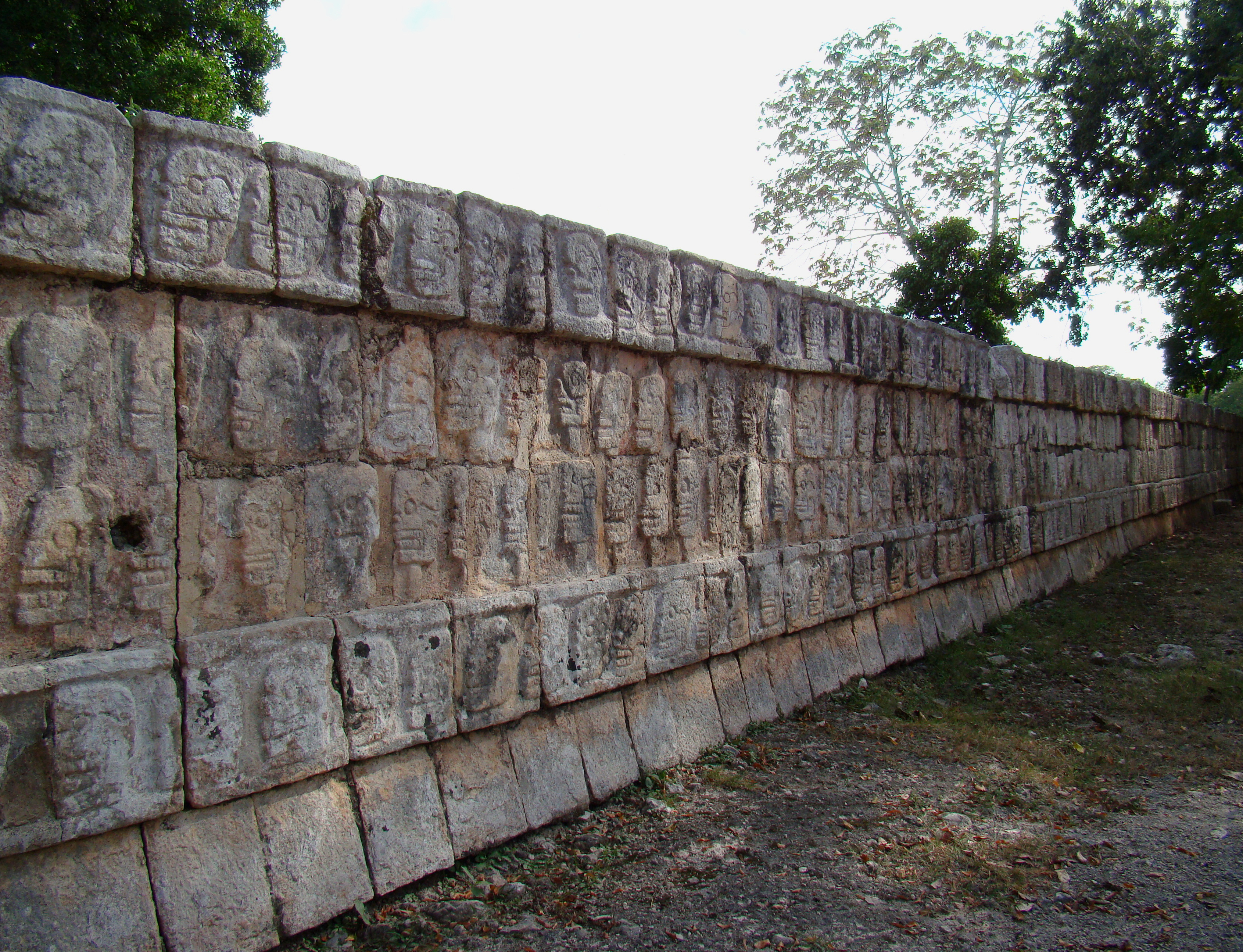 A row of stone skulls, known as a tzompantli or skull rack, near the Great Ballcourt at Chichen Itza, Mexico.